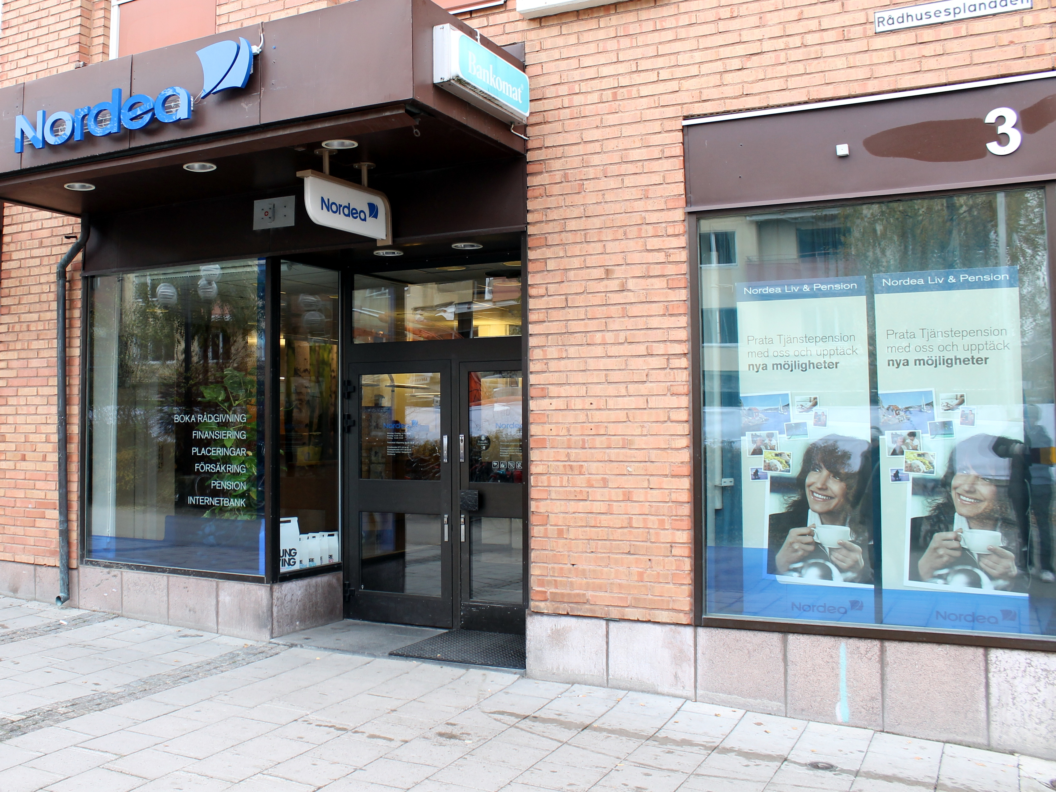 Nordea bank in Umeå, Sweden.